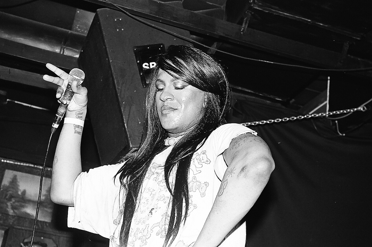 Mykki Blanco Performing in 2017